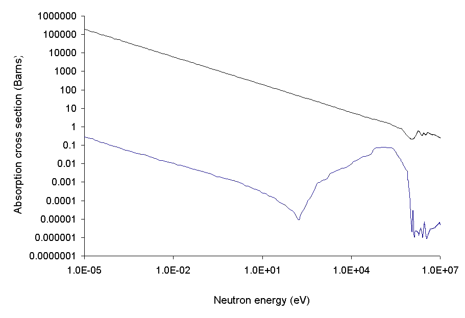 Neutron absroption cross sections as a function of neutron energy for B-10 and B-11. Black is B-10 and blue is B-11.